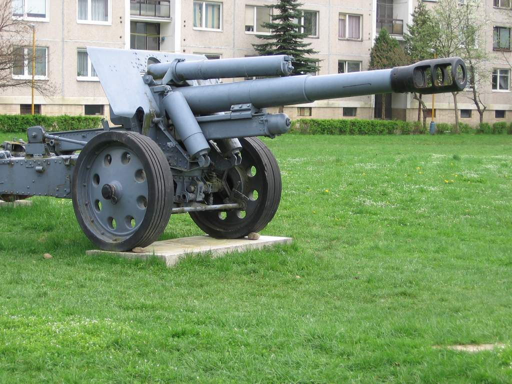 Svidník war museum - open air exposition.